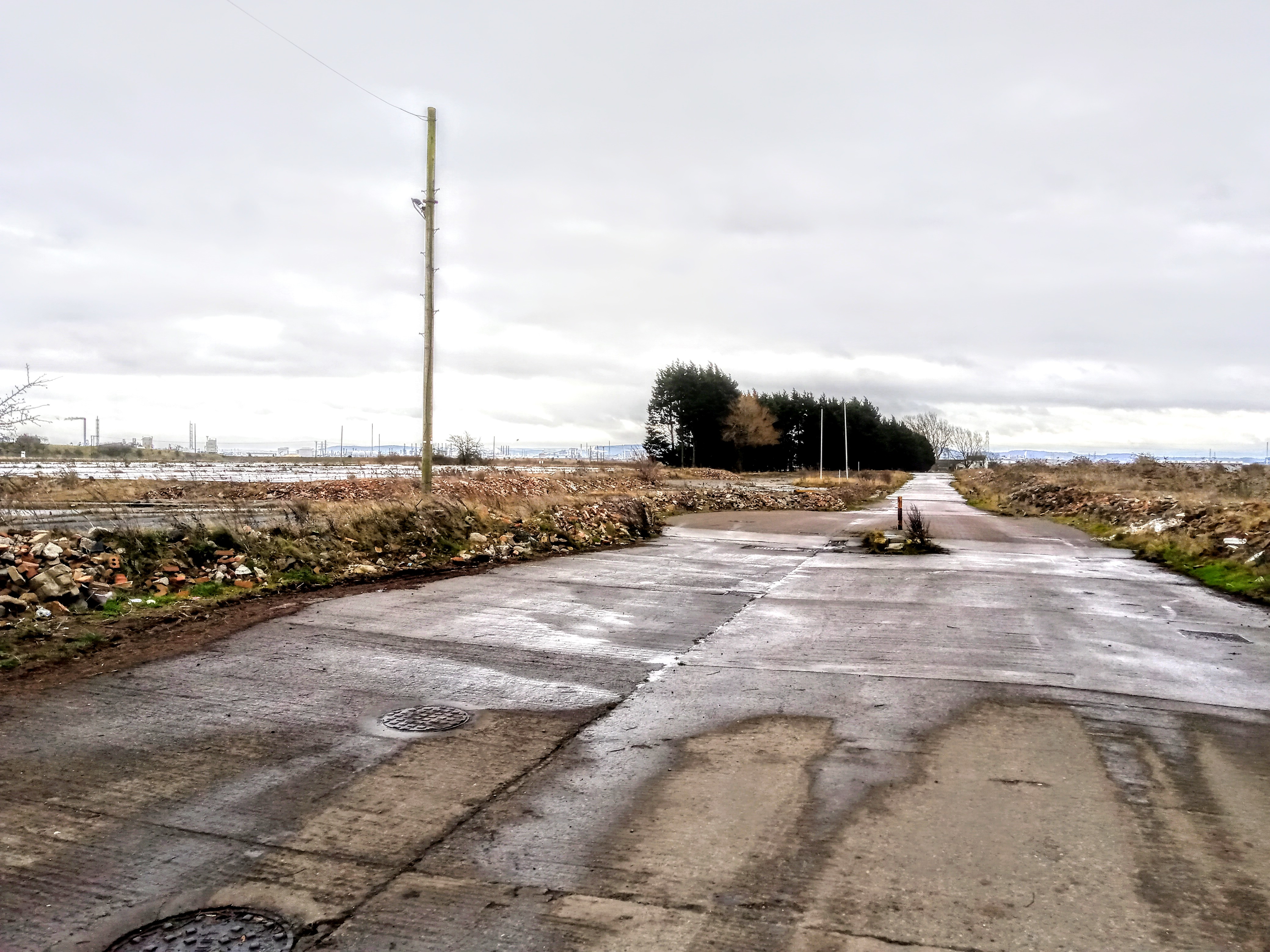 Greatham